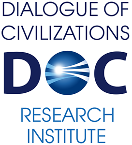 Logo of Dialogue of Civilizations Research Institute (2018)